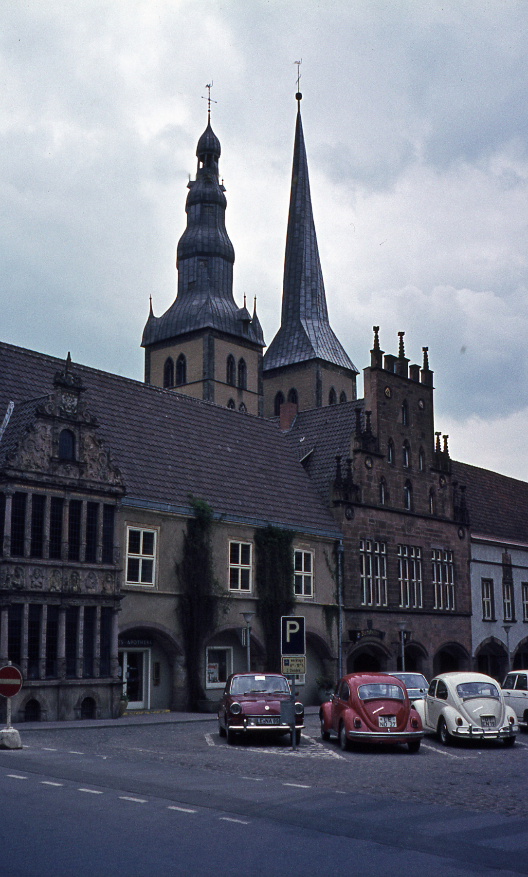 Lemgo cultural heritage Monument